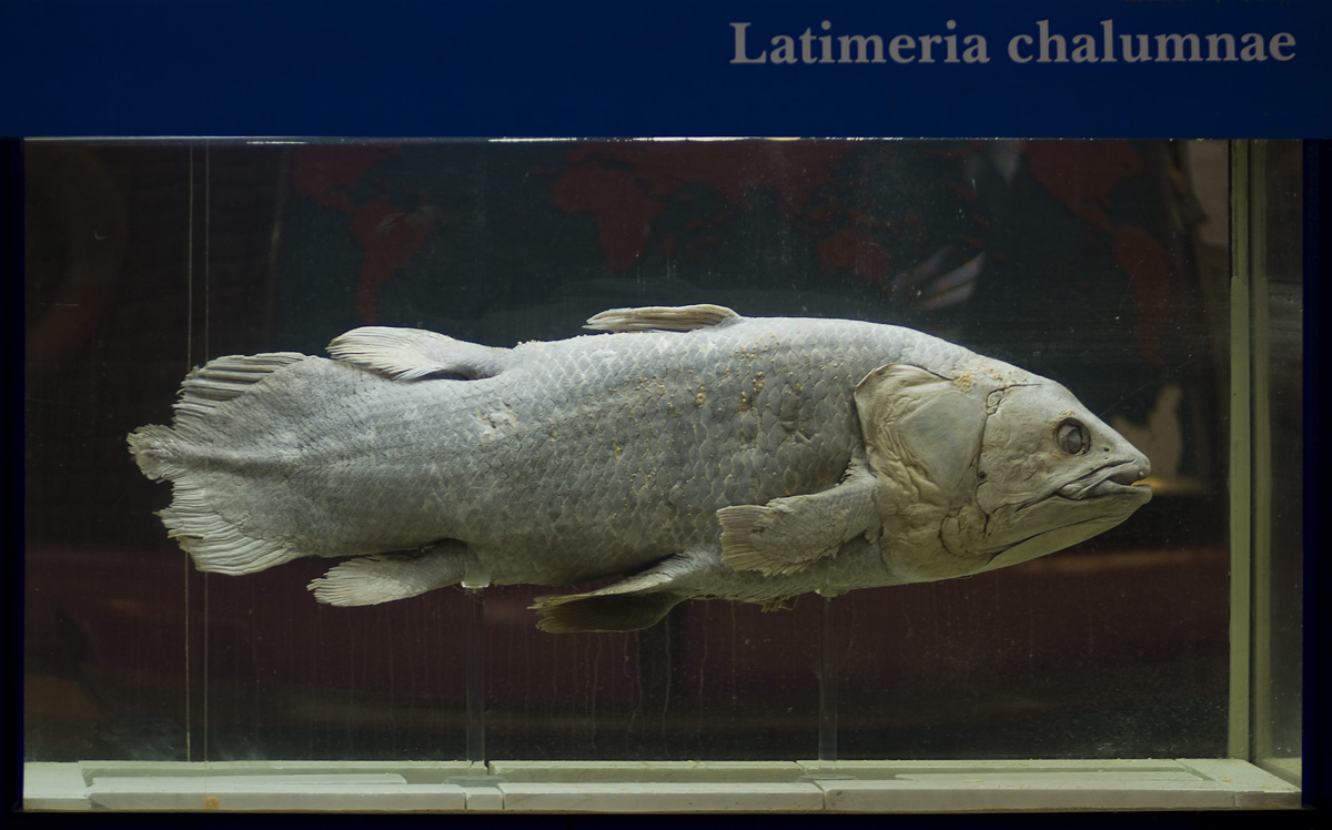 Latimeria (real fish) conserved in Shirshov institute of oceanology, Russia